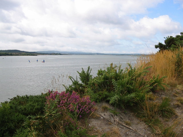 Ham Common. A quiet secluded beach area surrounded by a nature reserve. The pier has some historical background in that barges that carried clay for the local pottery unloaded at this point. An abundance of wildlife can be seen in this area, undergoing a butterfly conservation programme.